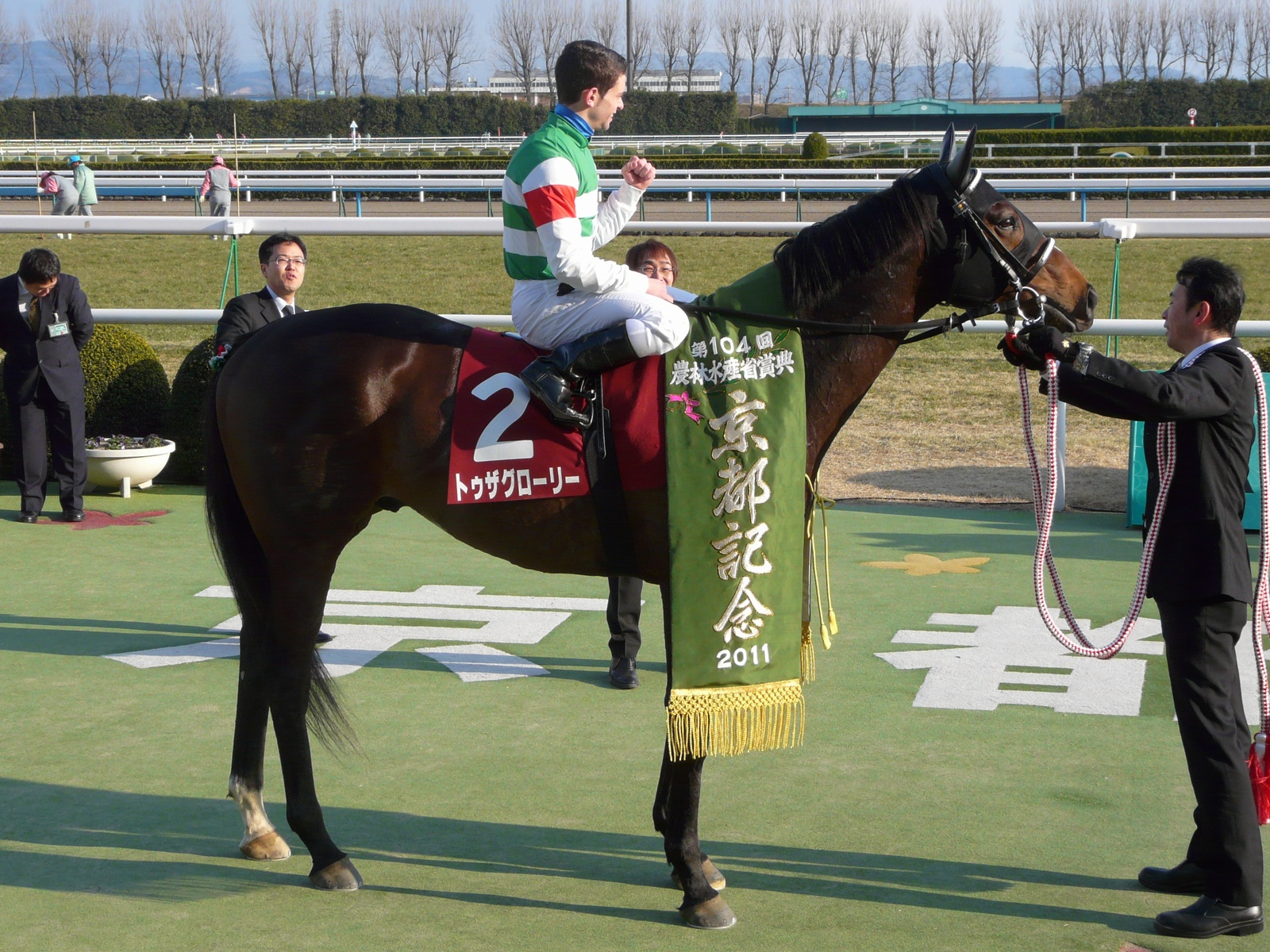 To-the-glory20110213